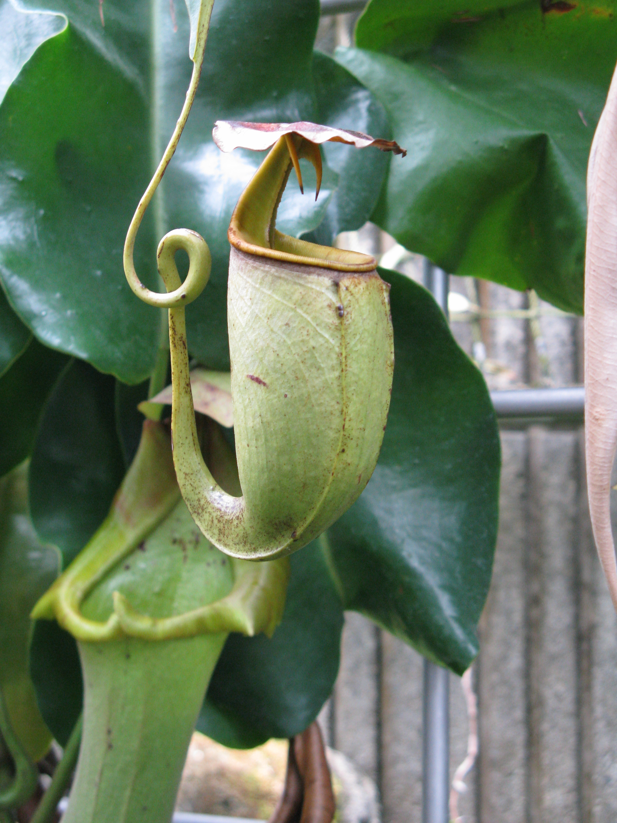 Scientific name Nepenthes bicalcarata Place:Sakuya Konohana Kan,Osaka,Japan